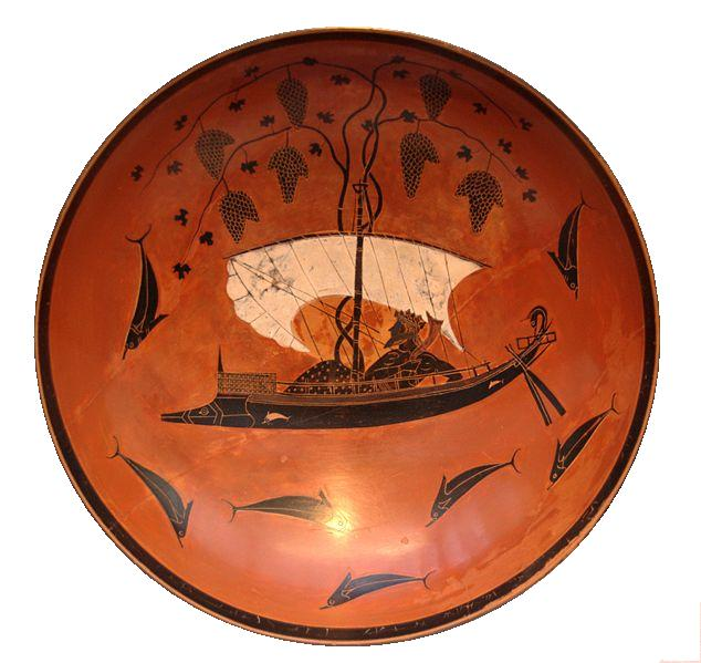 Dionysos in a ship, sailing among dolphins. Attic black-figure kylix, ca. 530 BC. From Vulci.